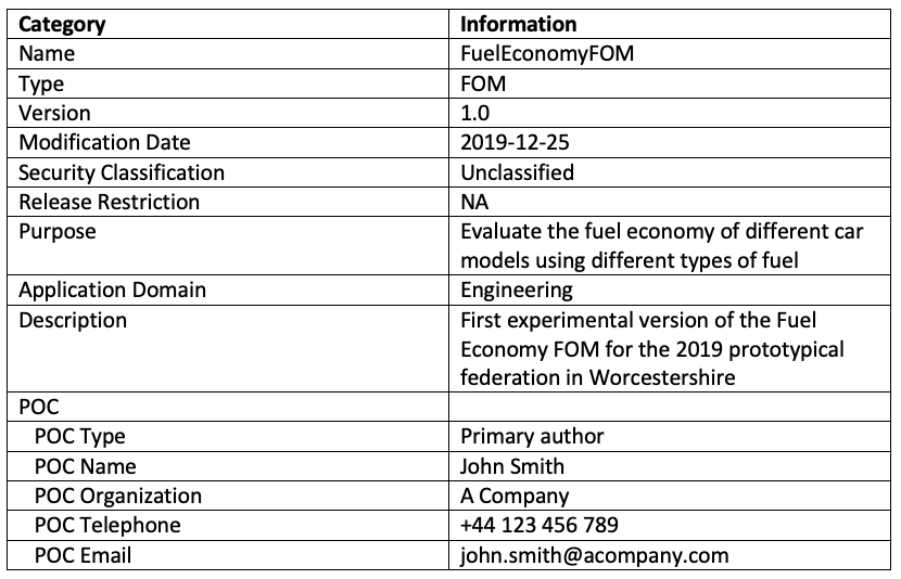 Sample HLA Identification Table according to IEEE 1516-2000